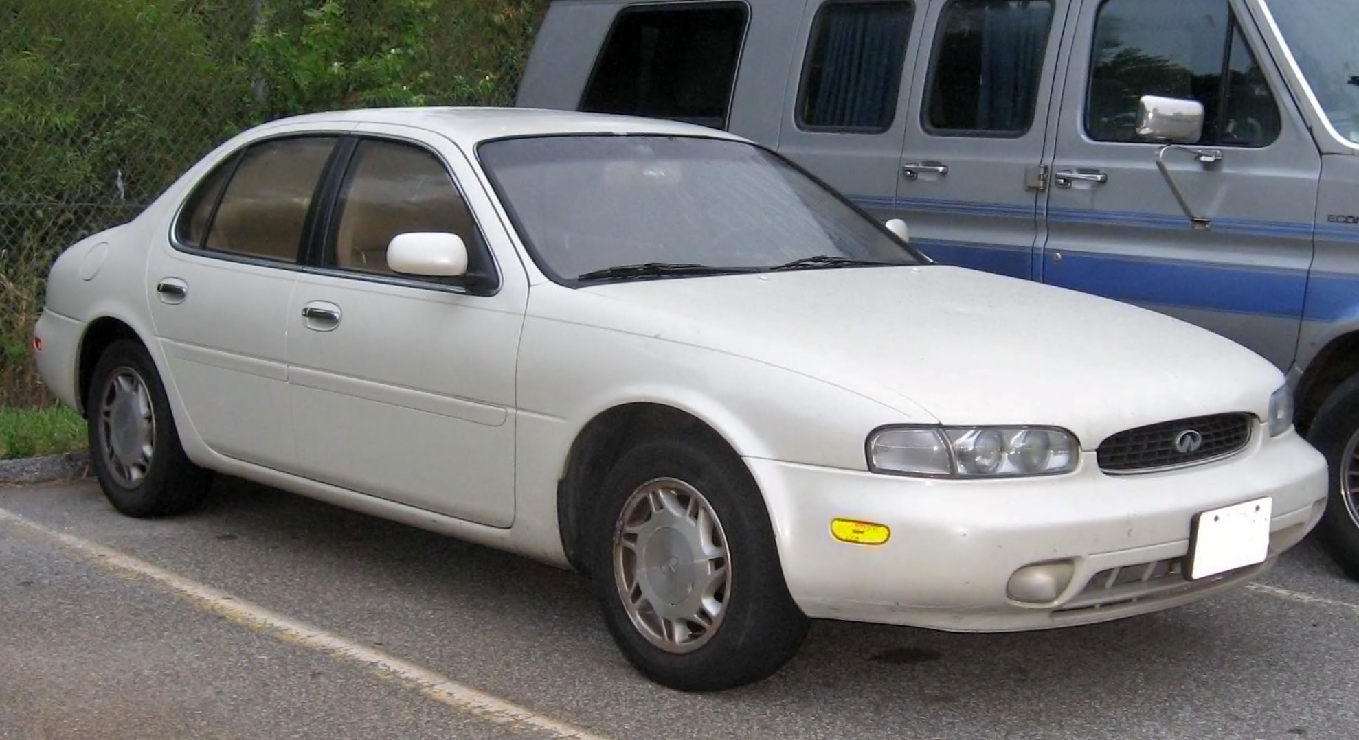 Infiniti J30 photographed in College Park, Maryland, USA.